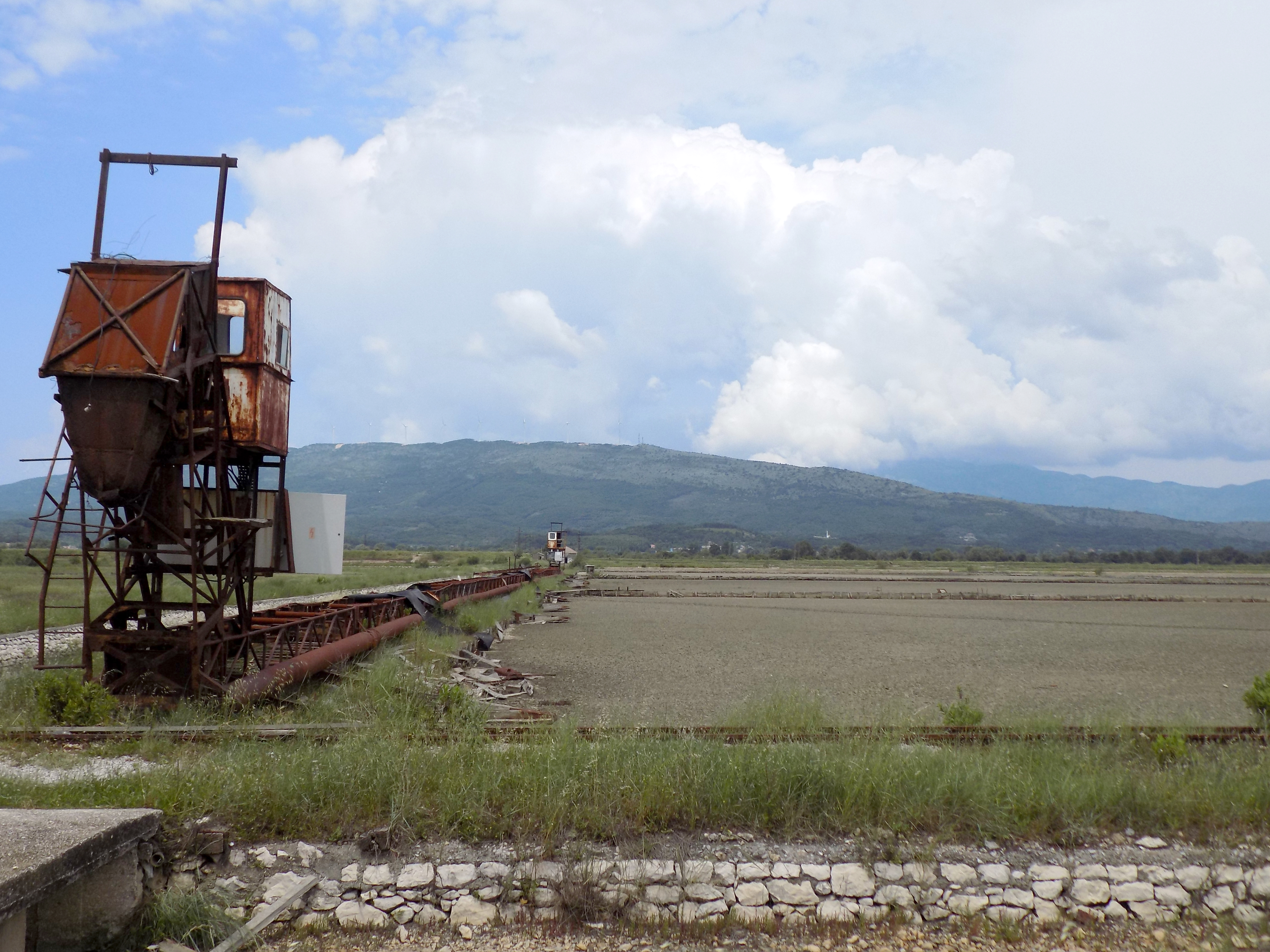 Ulcinj Salinas, important bird area - old machines of the former salt works